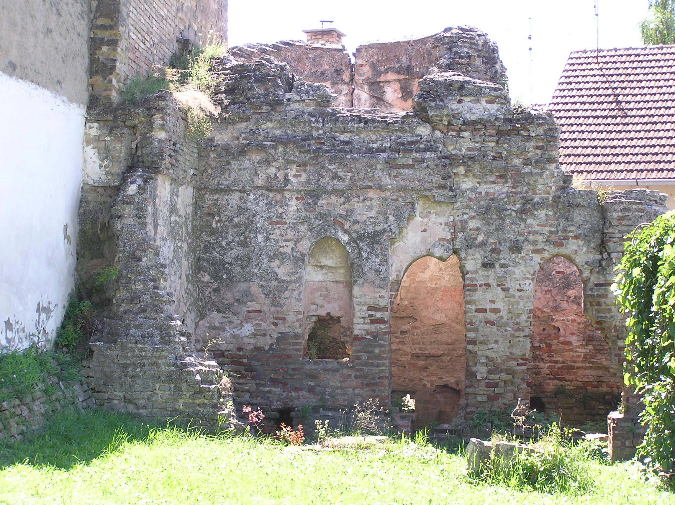 Amam in Bač, general look